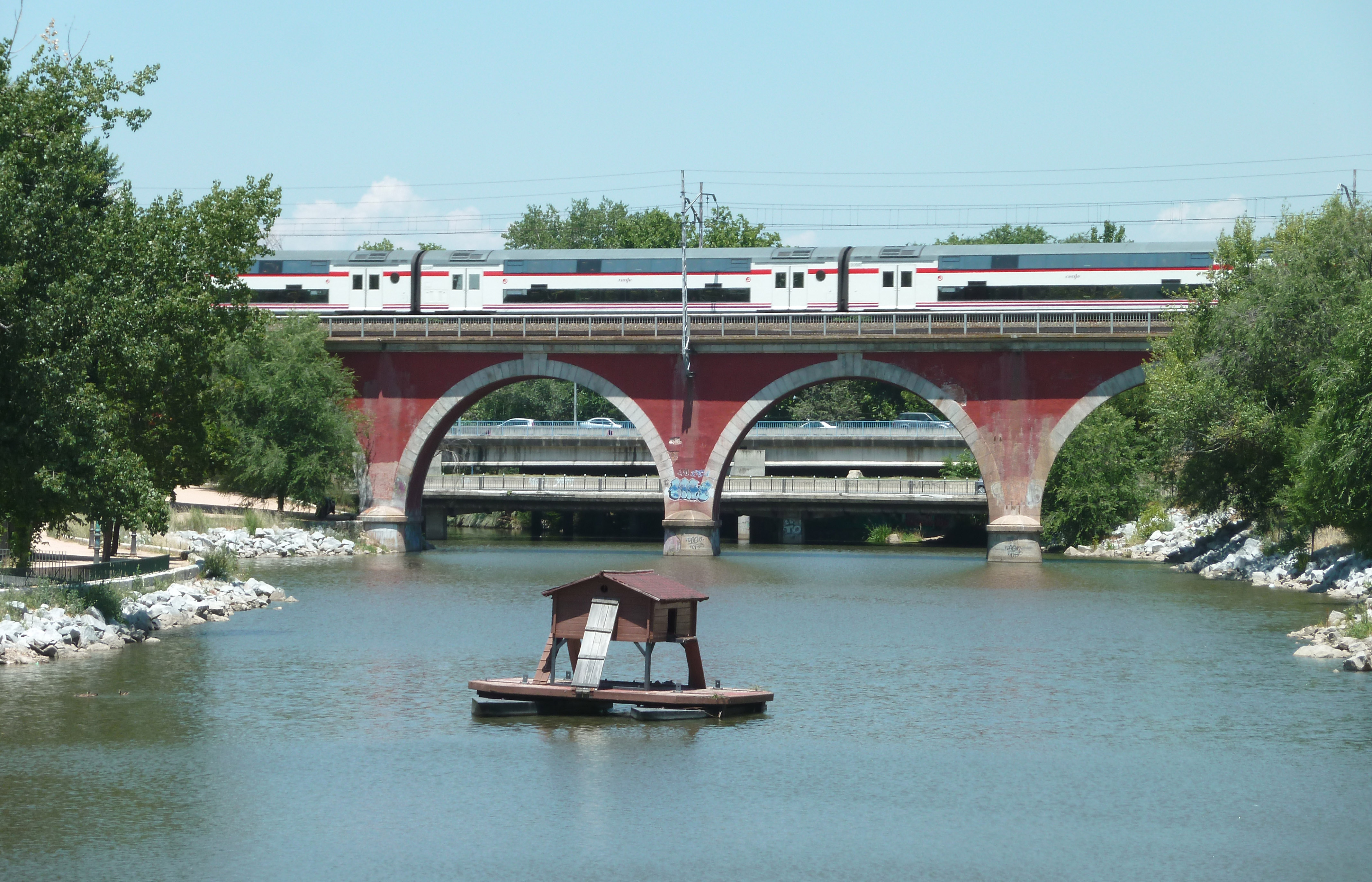 Southern side of Puente de los Franceses (literally "Bridge of the French") in Madrid (Spain). Railway bridge over river Manzanares built in 1862 by French engineers (hence its name).